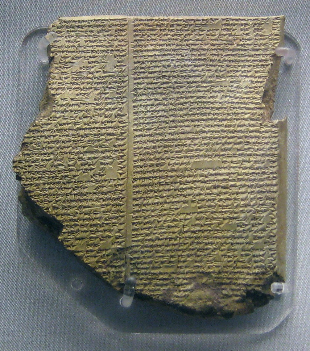 Neo-Assyrian clay tablet. Epic of Gilgamesh, Tablet 11: Story of the Flood. Known as the "Flood Tablet" From the Library of Ashurbanipal, 7th century BC.